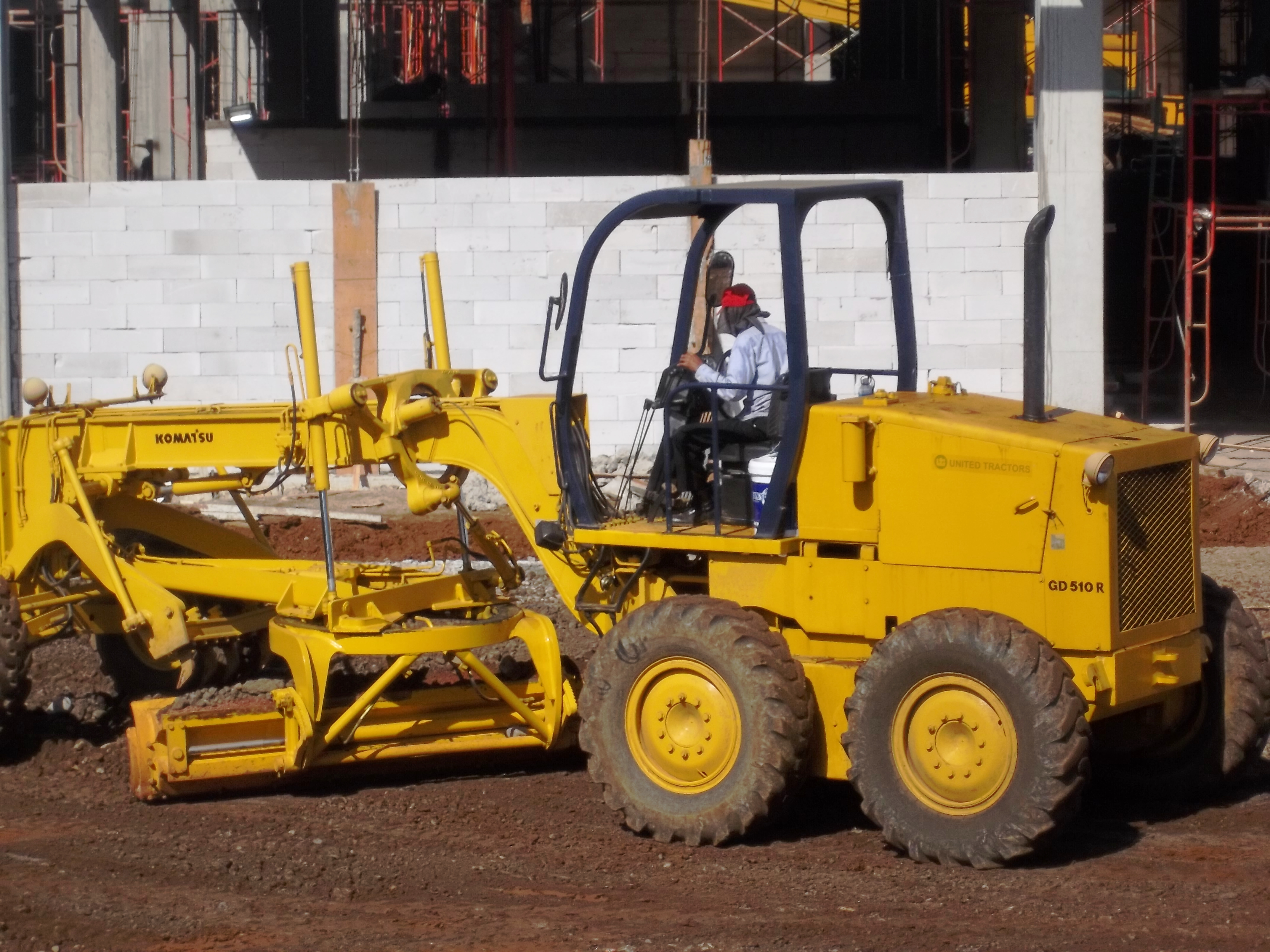 Grader working in construction site, Bogor Agricultural University